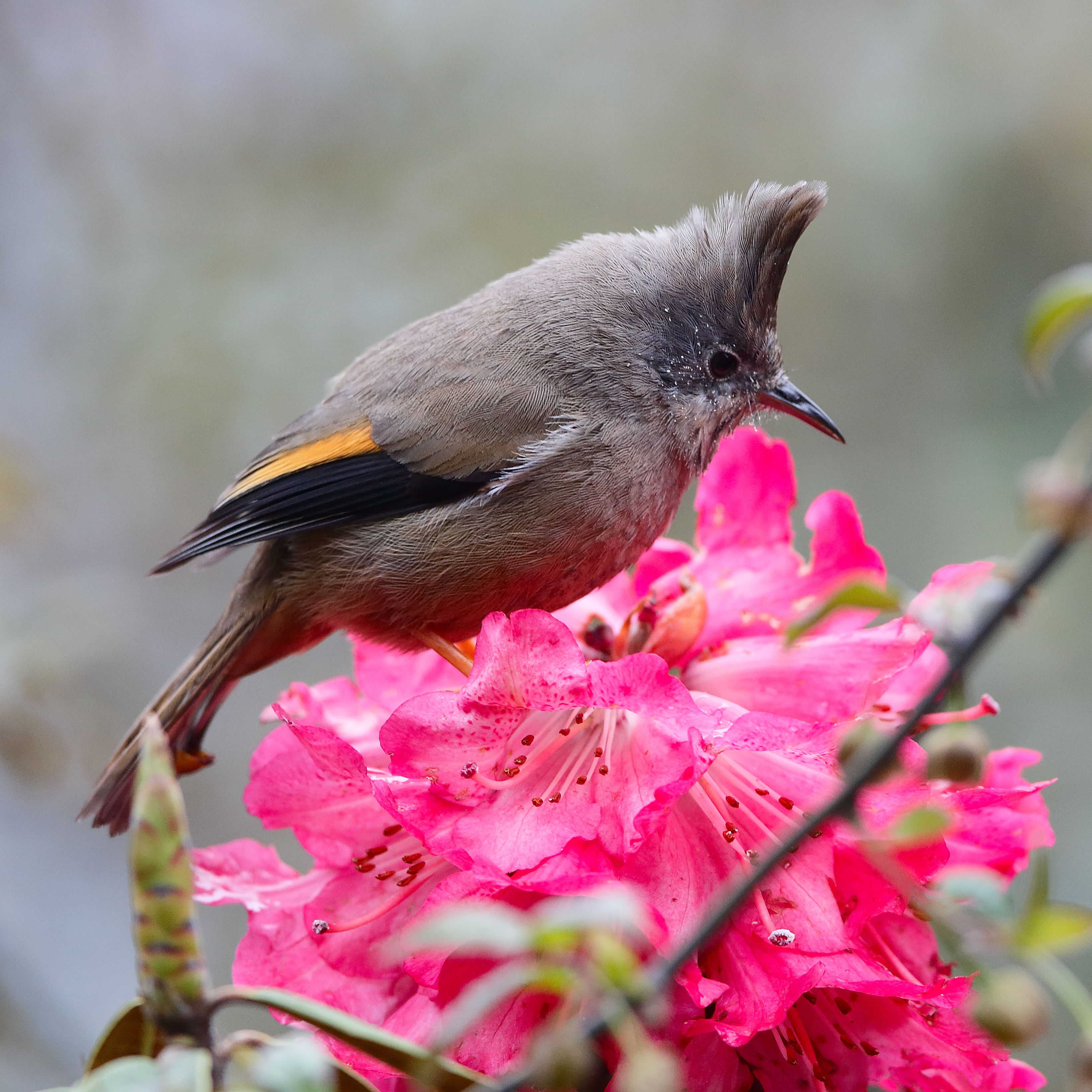 Stripe-throated yuhina on rhododendron flower, Kangchenjunga National Park, Sikkim, India